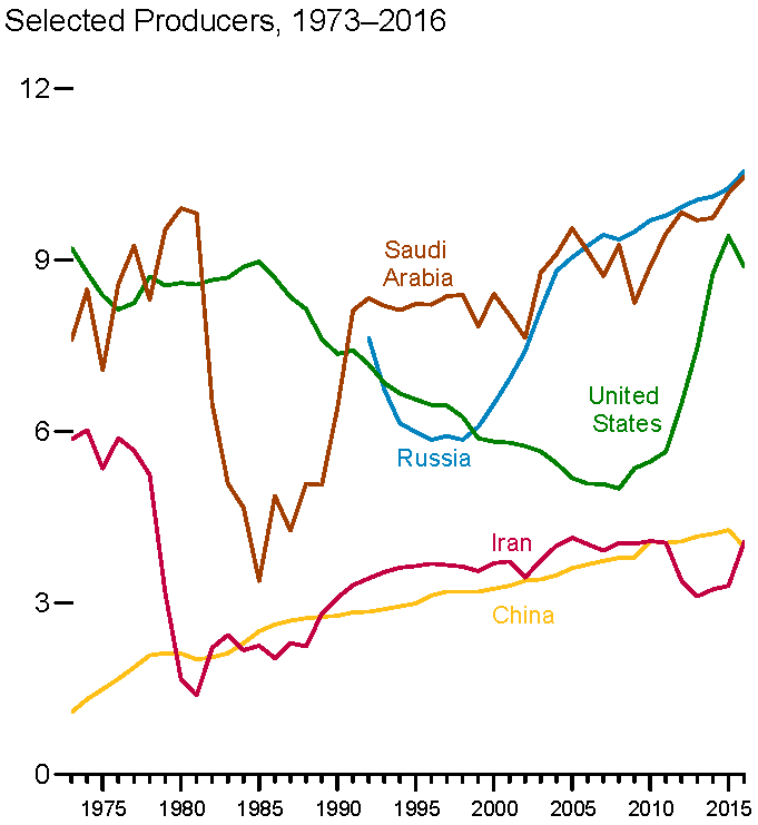 Top Oil-Producing Countries(Crude Oil including Gas Condensate, million barrels per day, 1973–2016)